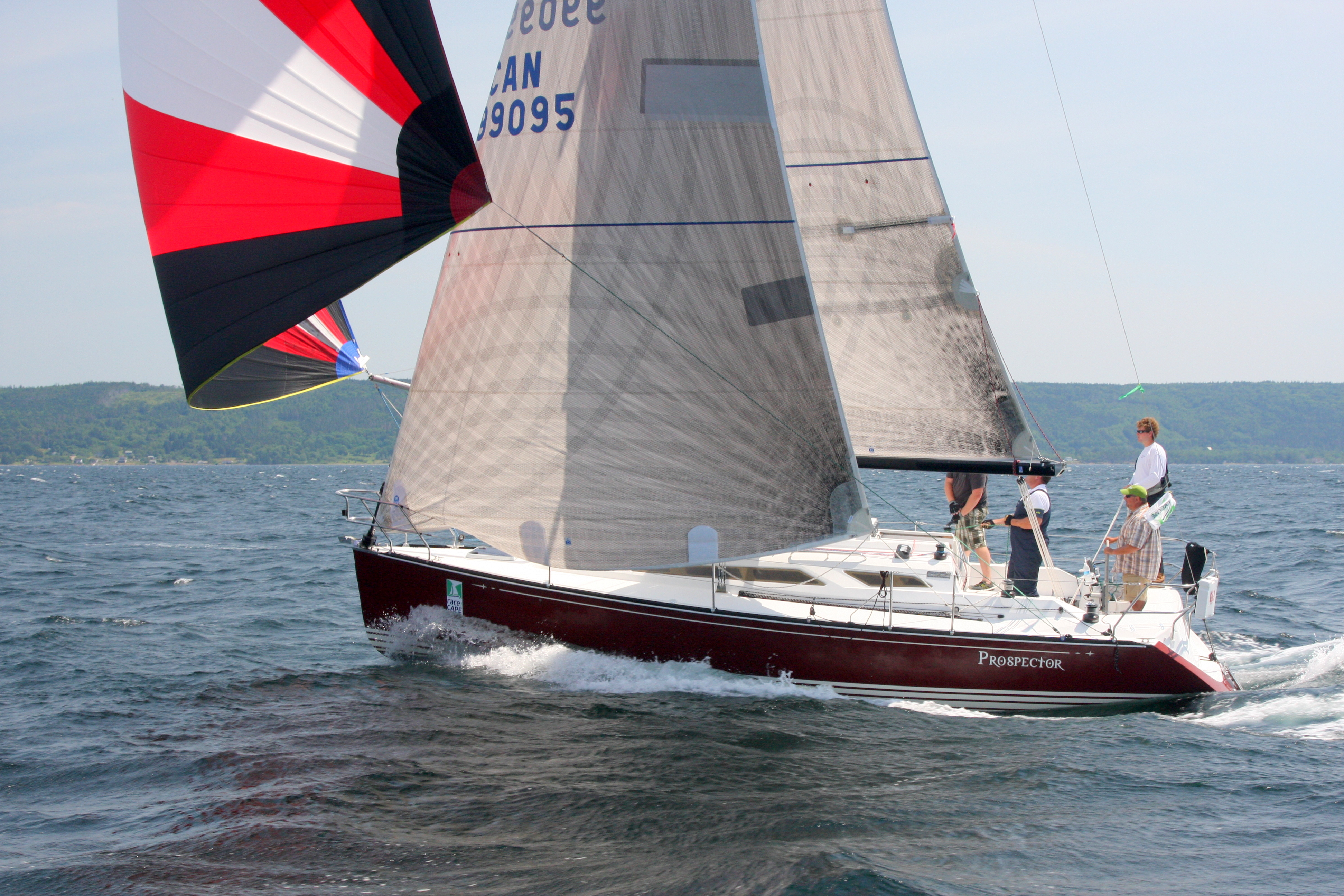 The C&C 99 "Prospector" competing in the Barra Strait Cup, one leg of Race the Cape 2014 in the Bras d'Or Lake, Cape Breton Island, Nova Scotia, Canada. The C&C 99 is an American sailboat, that was designed by Tim Jackett and entered production in 2002. The boat was built by C&C Yachts in the United States, but it is now out of production.